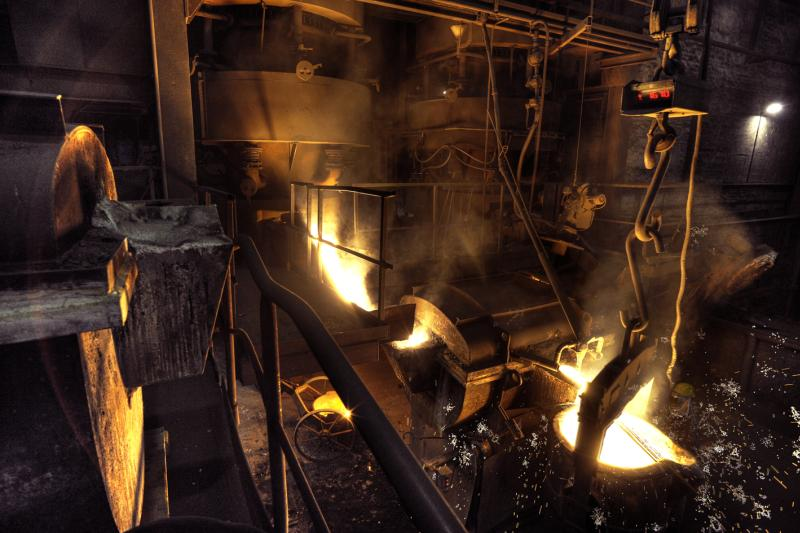 cupola melting furnace for melting grey cast iron, HDR